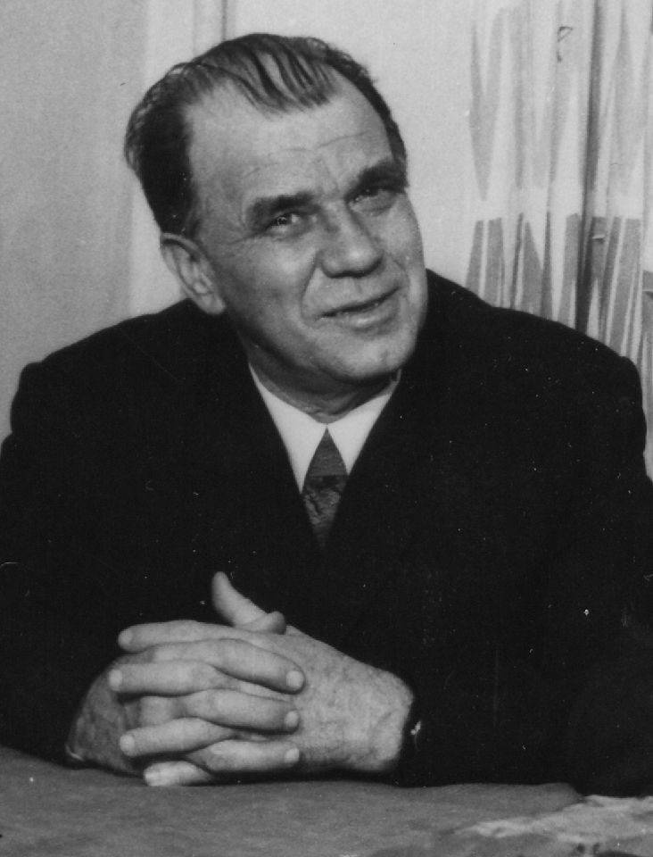 Filip Semenovich Bondarenko (21.10.1905-08.02.1993) Ukrainian Chess composer